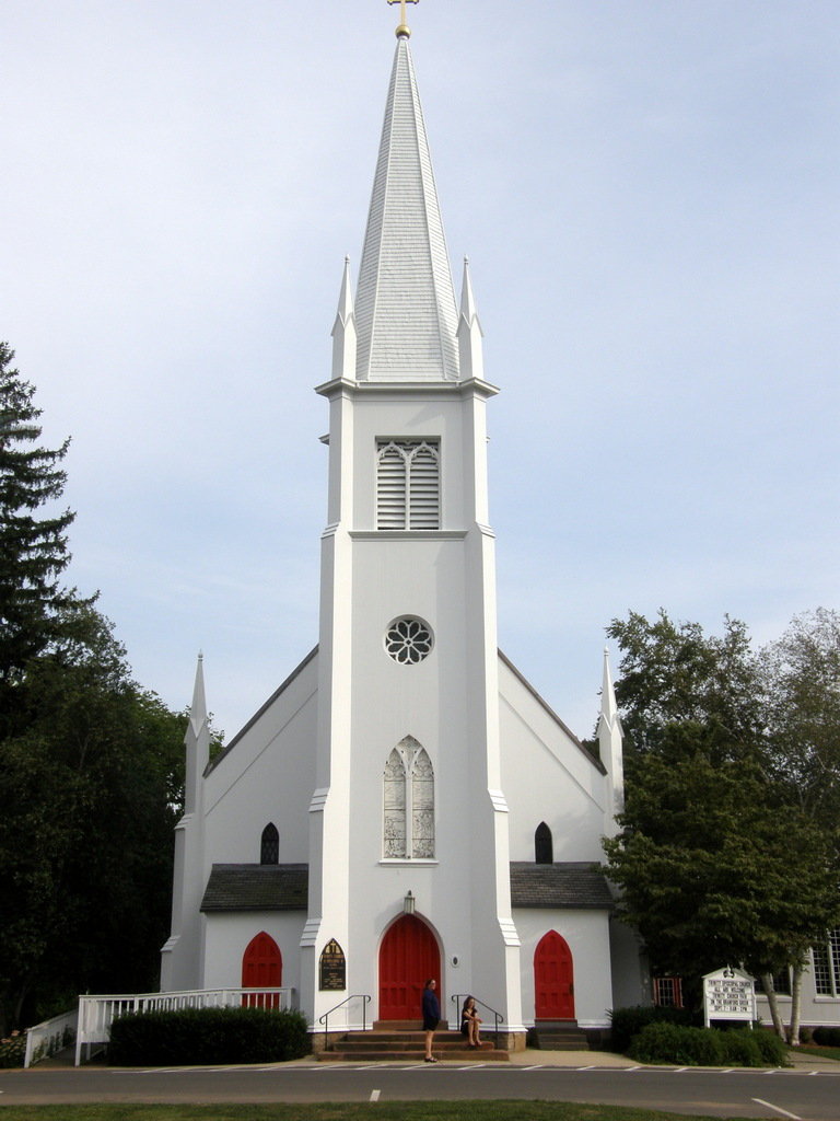 Trinity Episcopal Church, Branford, CT designed by Sidney Mason Stone